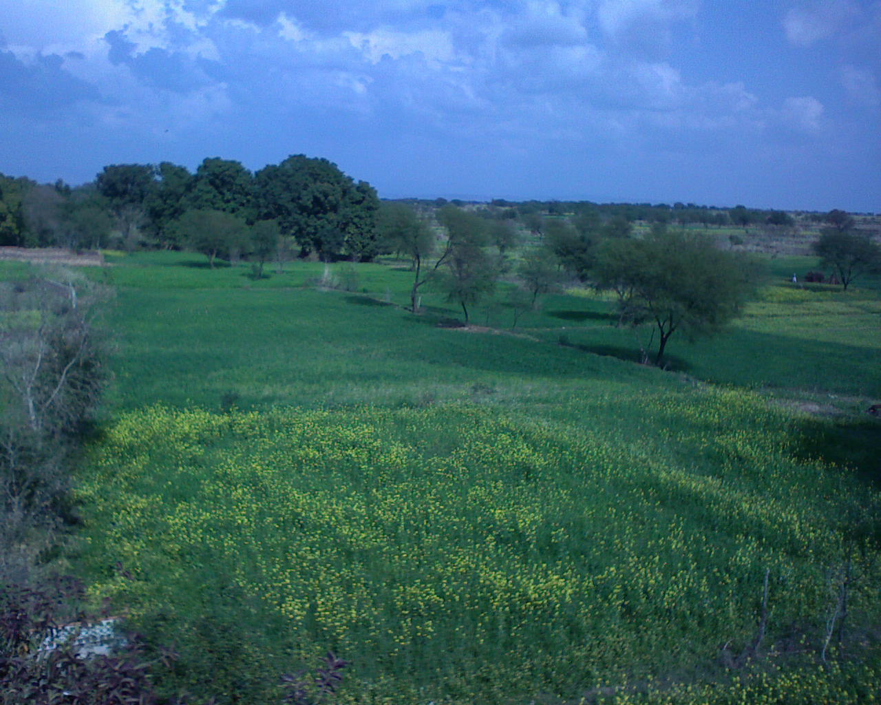 Flowering Mustard (Sarsoon, Brassica campestris var. sarson) fields in the village of Sadwal Kalan, Gujrat district, Punjab, Pakistan